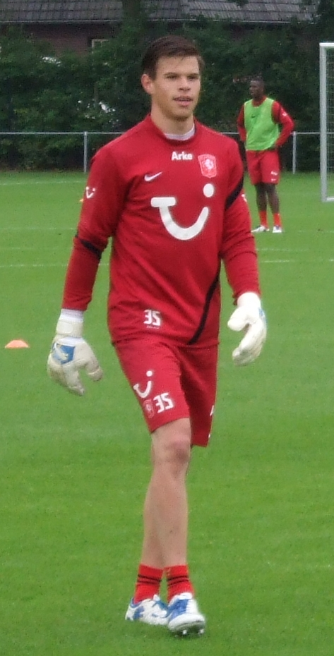 FC Twente player Filip Bednarek